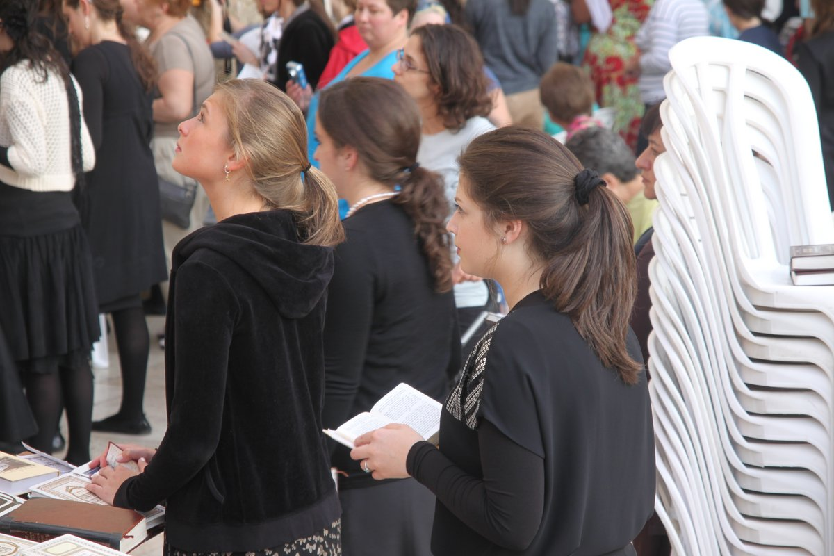 Girls of Israel praying and reading on the western wall